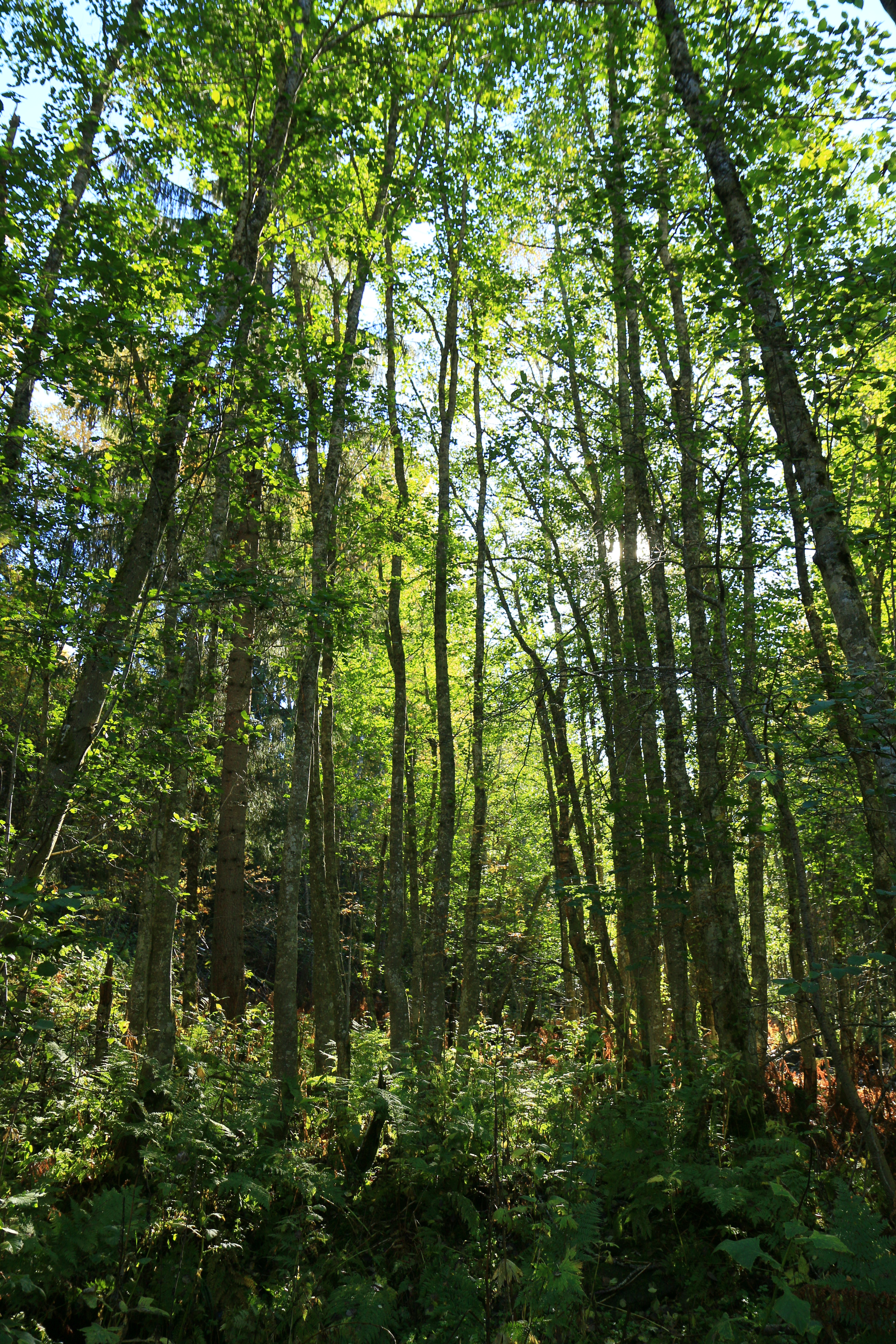 Grey alder forest in Norway.